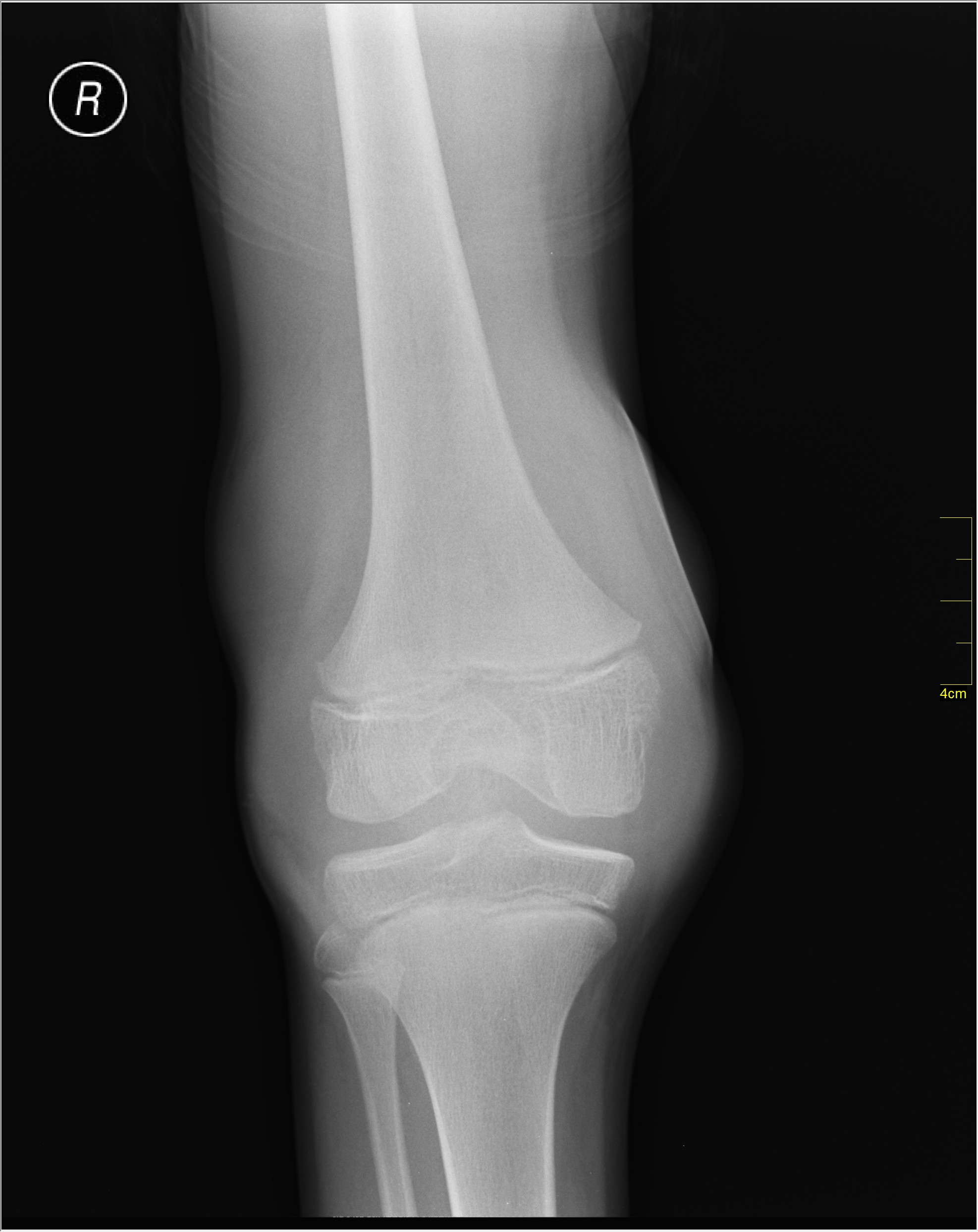 Hemarthrosis, Medical X-rays.